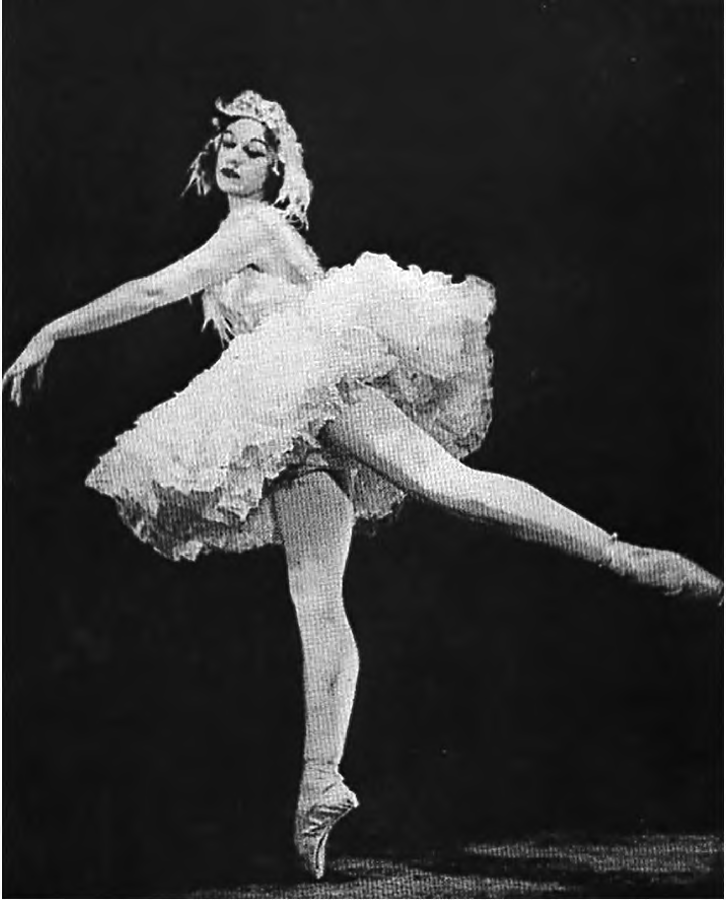 Olga Sapphire, "The Dying Swan". Tokyo. 1936-1937. Photo by Tomonori Arita.